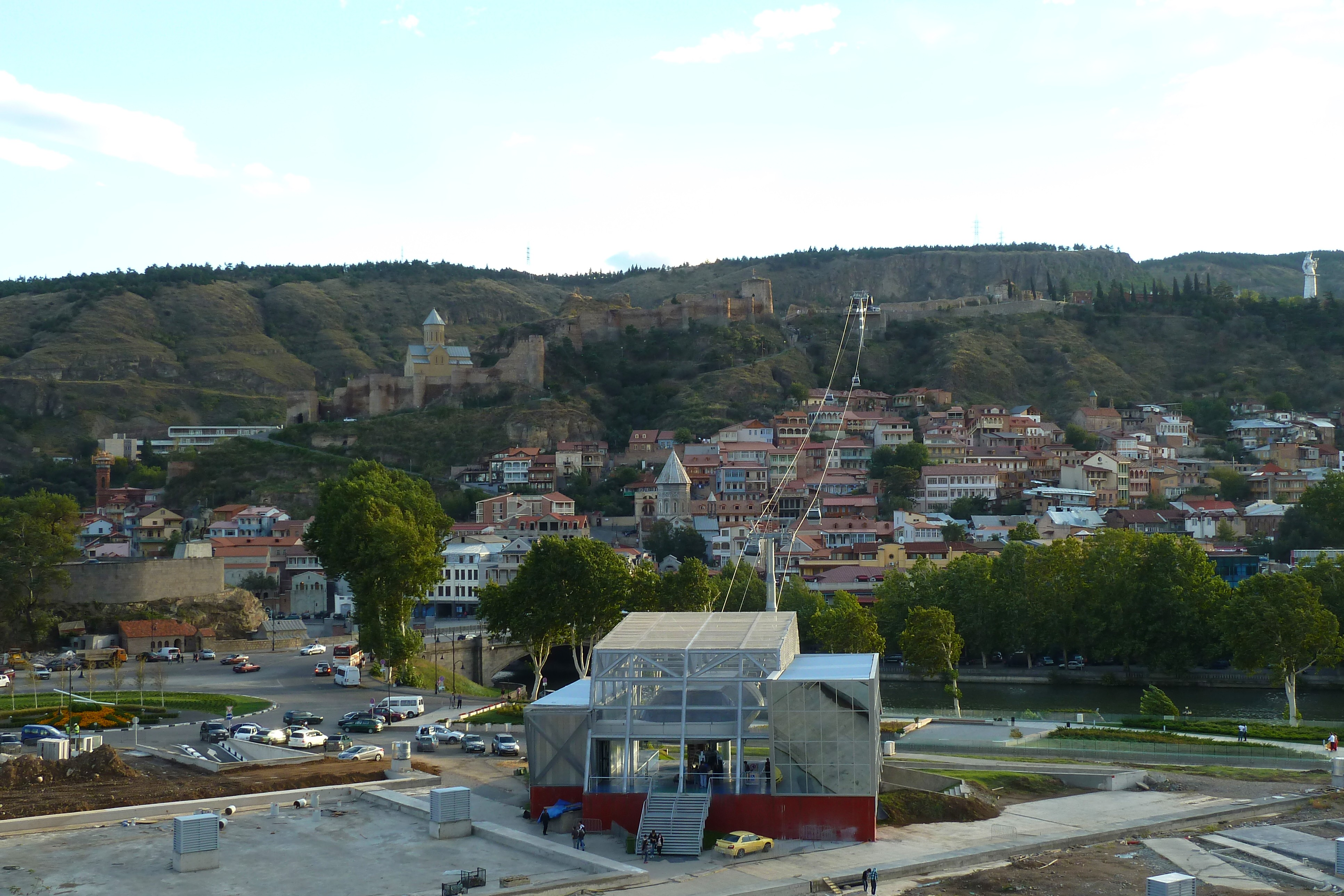 Aerial tramway connecting Rike park and Narikala fortress in Tbilisi, Republic of Georgia, opened in June 2012